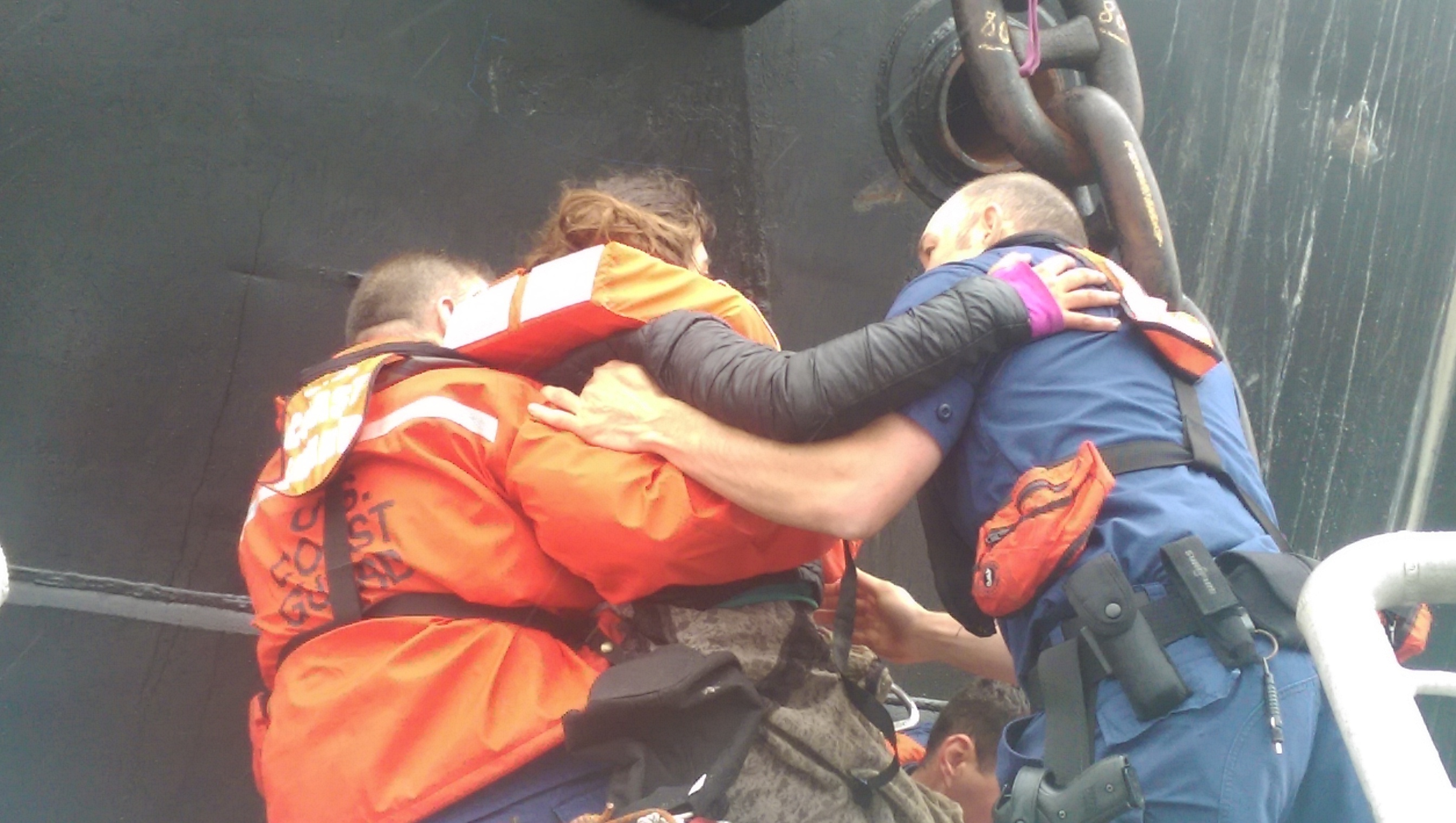 Crew members from Coast Guard Station Bellingham, Wash., assist Chiara D’Angelo, an activist, down from the anchor chain of Arctic Challenger in the Port of Bellingham, May 25, 2015. The Coast Guard crew responded to D’Angelo’s request for assistance to come down from the anchor chain. (U.S. Coast Guard photo courtesy of Station Bellingham)